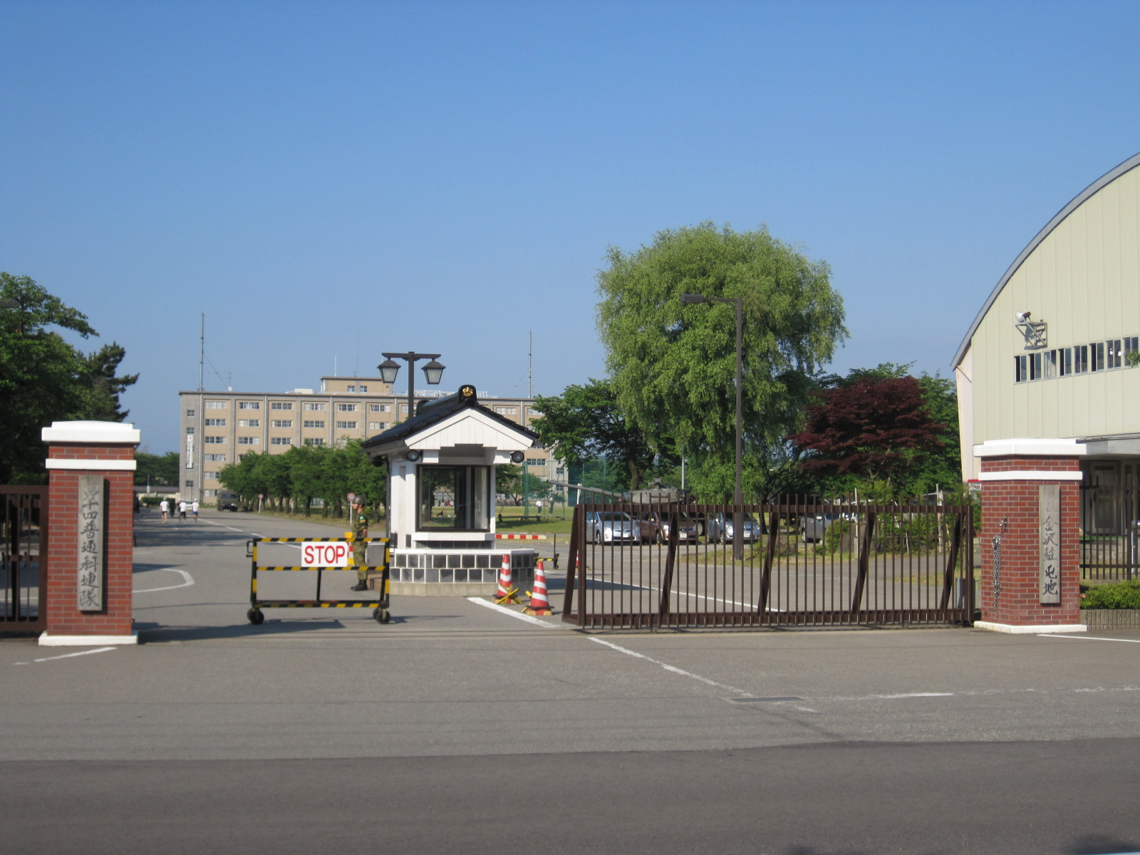 JGSDF Kanazawa Camp (Kanazawa city, Ishikawa prefecture)